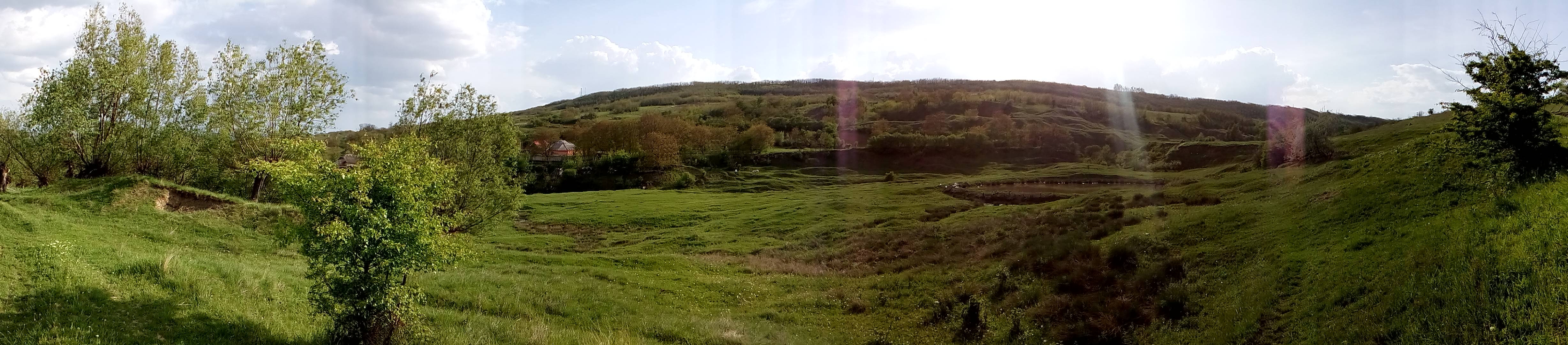 The protected area colloquially known as "Cimitirul Cailor" (from Romanian "Horses' Graveyard"), located to north-west of Păulești villages of Călărași District, Moldova A-014